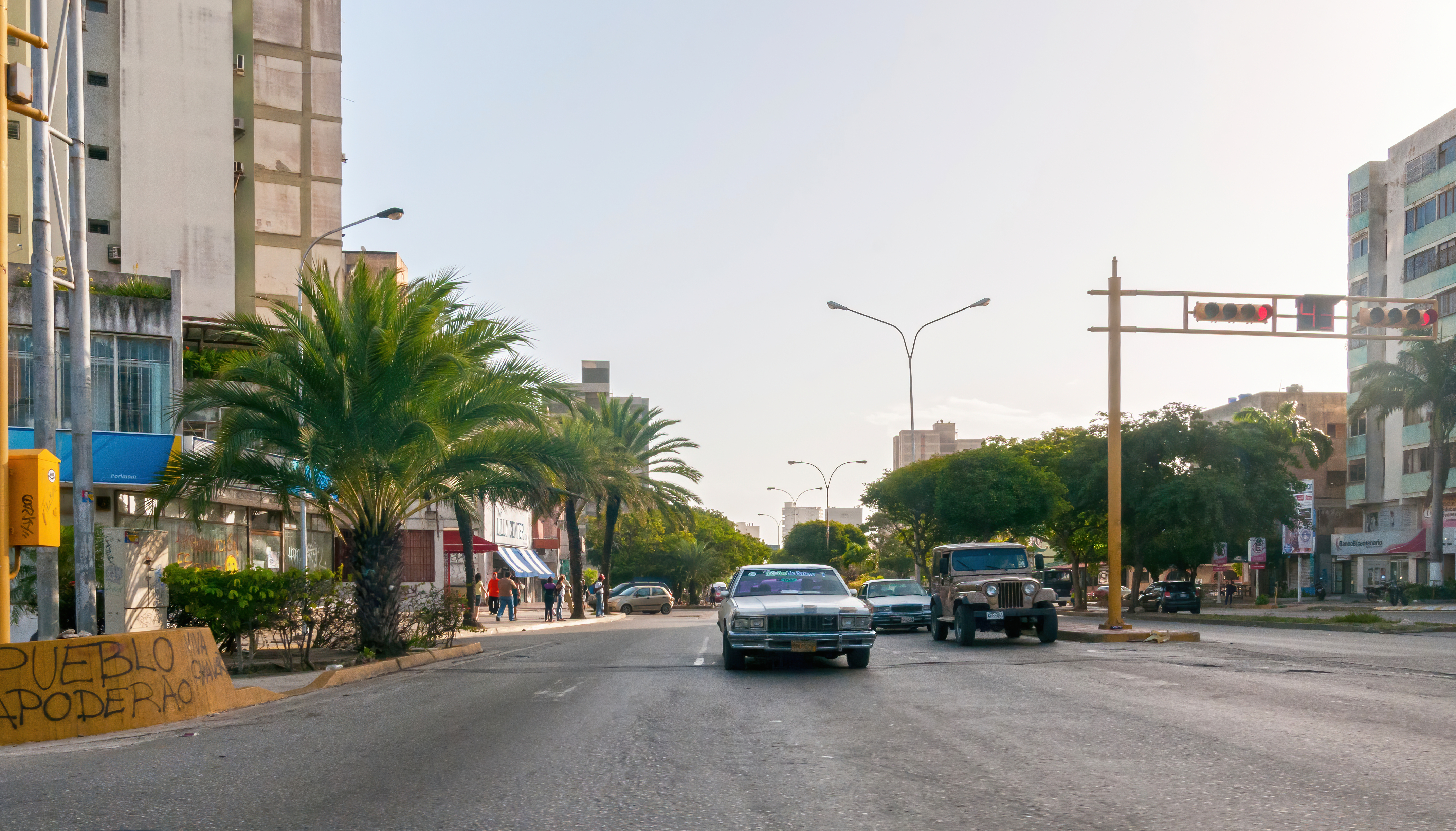 4 de Mayo street